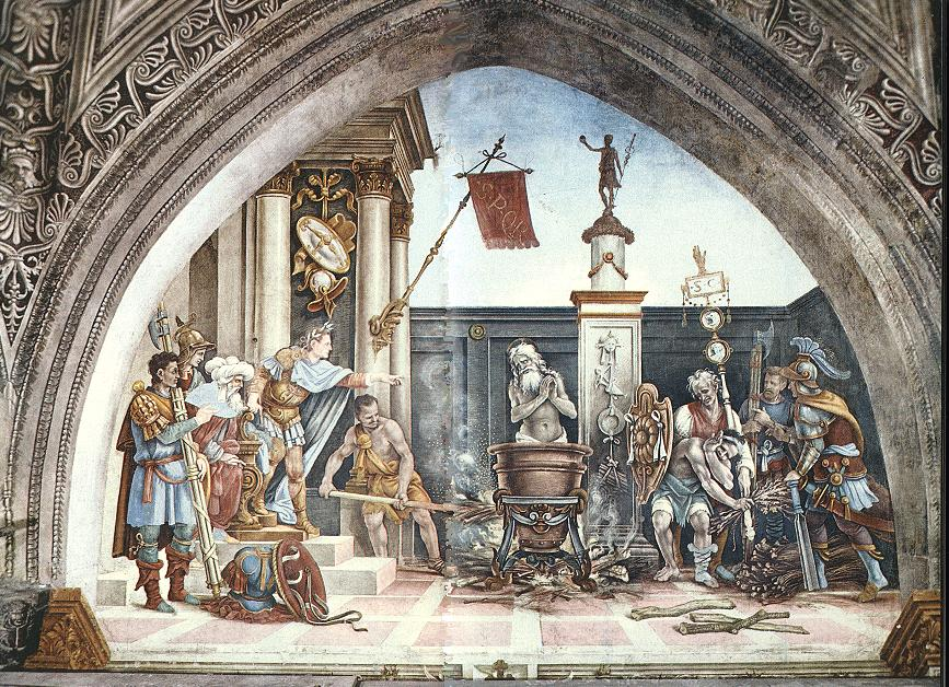 LIPPI, Filippino Torture of St John the Evangelist Fresco Strozzi Chapel, Santa Maria Novella, Florence